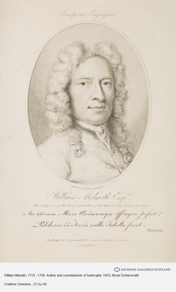 Portrait of William Melmoth the younger (c.1710–1799), English lawyer and man of letters.